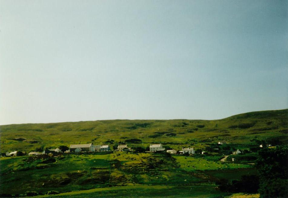 Photograph of Glencolmcille, Ireland, taken by User:Angr in June 1995.